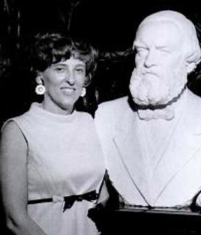 Cropped photo of Jimilu Mason with her bust of Constantino Brumidi in 1968. Myrtle Cheney Murdock's hand is in the lower right corner of the picture.